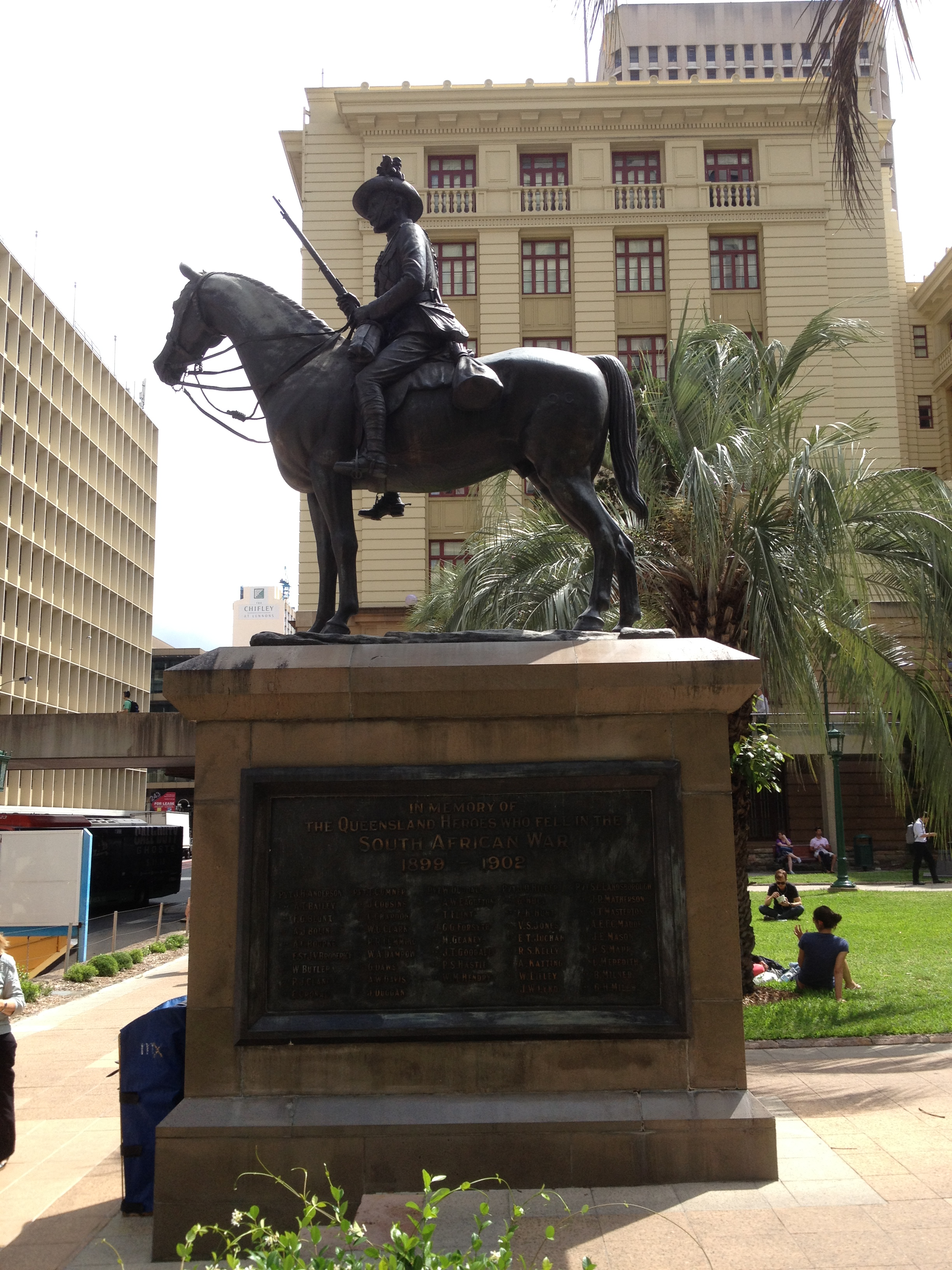 South African War Memorial, ANZAC Square, Brisbane, Australia